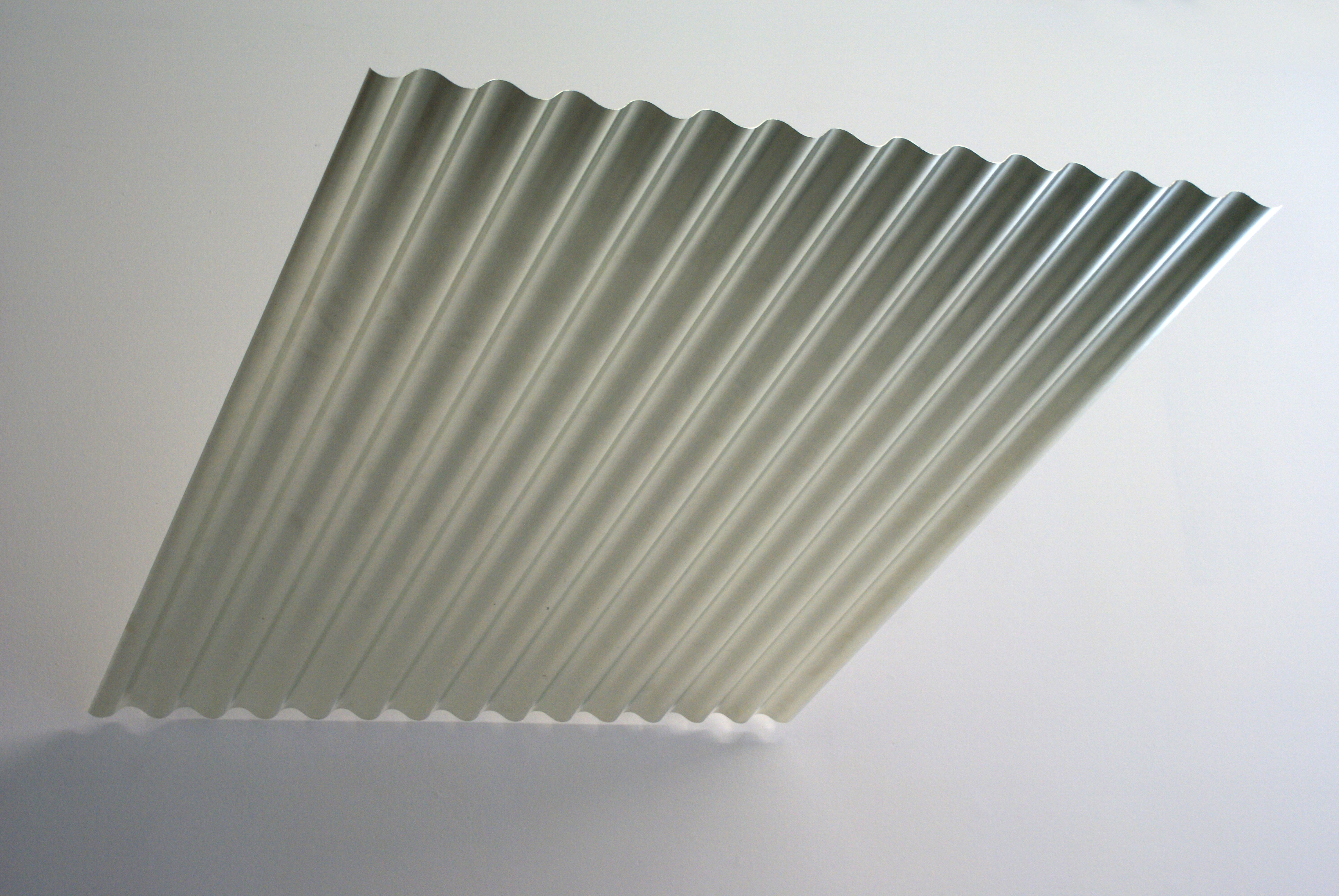 Ann Veronica Janssens : Tropical Moonlight (2008), Ann Veronica Janssens exhibition at Micheline Szwajcer gallery, Antwerpen, Belgium (30 October - 29 November 2008).